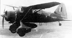 Westland Lysander Mk III